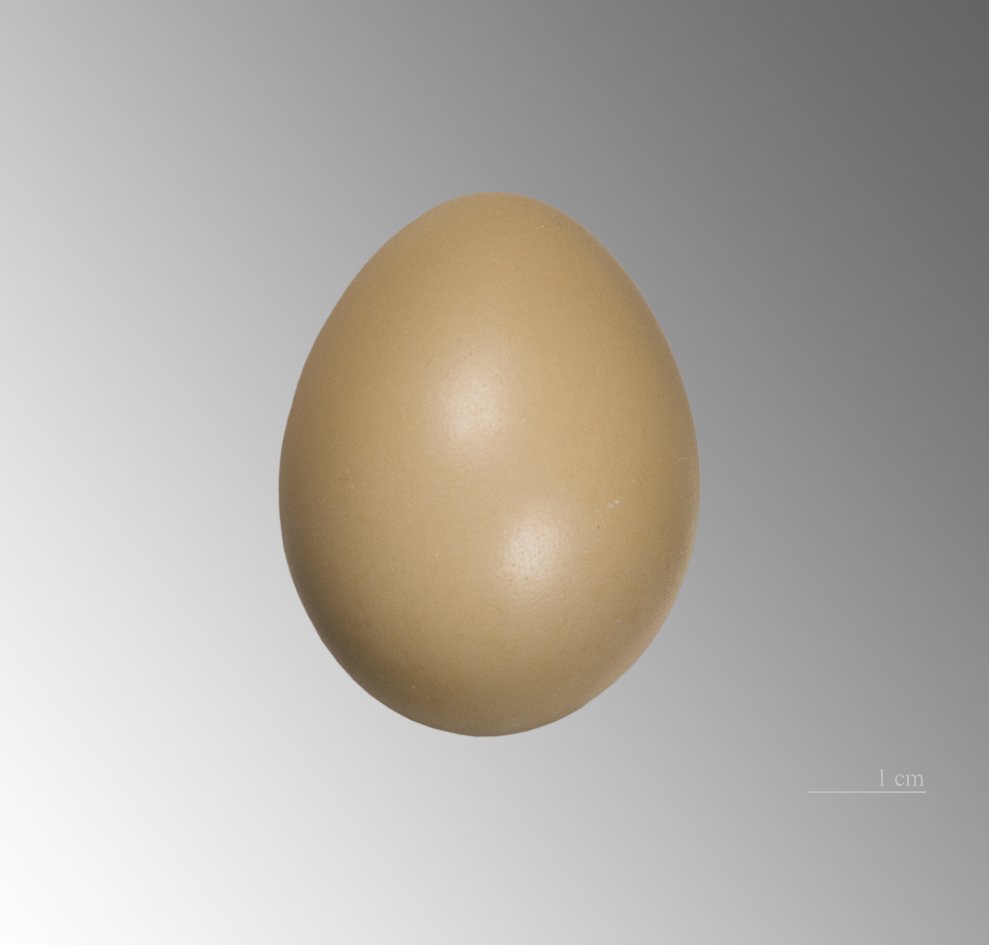 Egg of Green Pheasant. Collection of Jacques Perrin de Brichambaut. Locality: Jardin des Plantes Paris France.